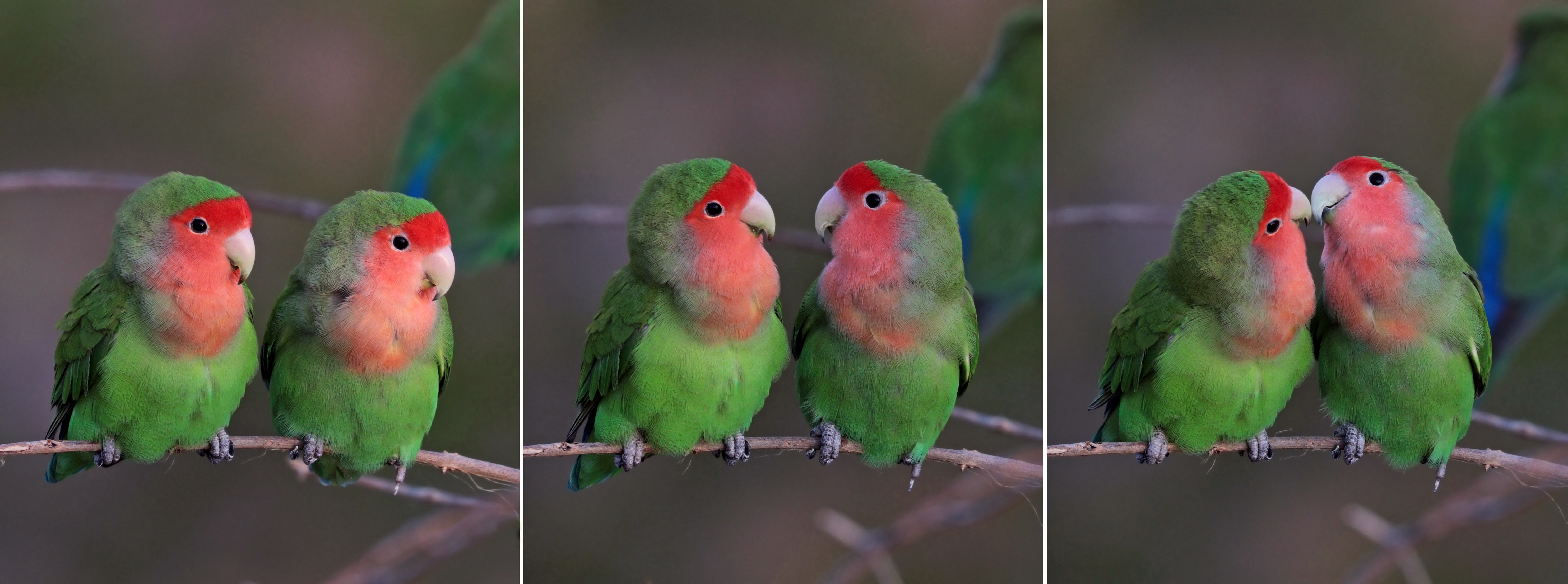 Rosy-faced lovebirds (Agapornis roseicollis roseicollis) composite of courting pair, Erongo, Namibia